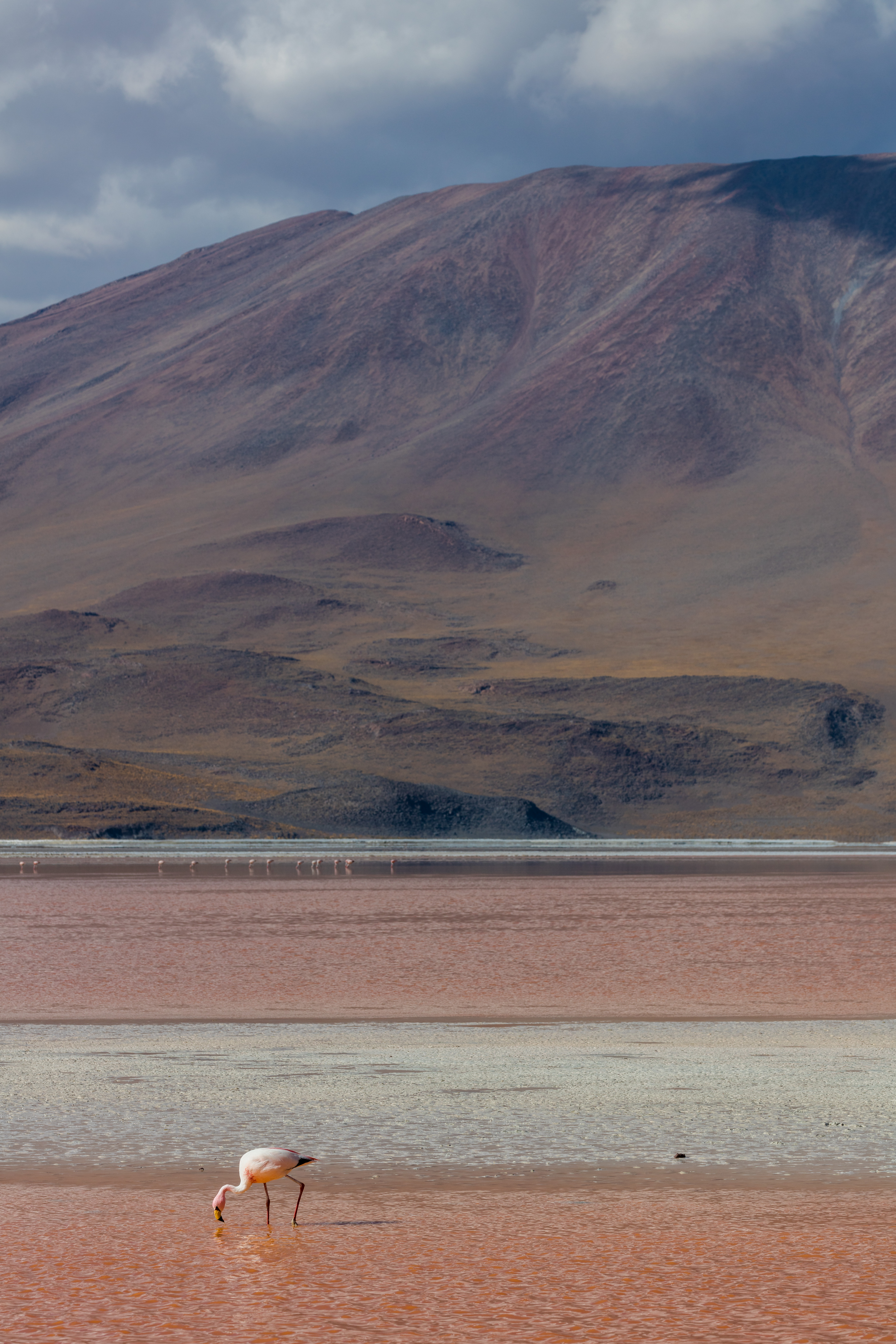 Andean flamingo (Phoenicoparrus andinus), Laguna Colorada, Bolivia